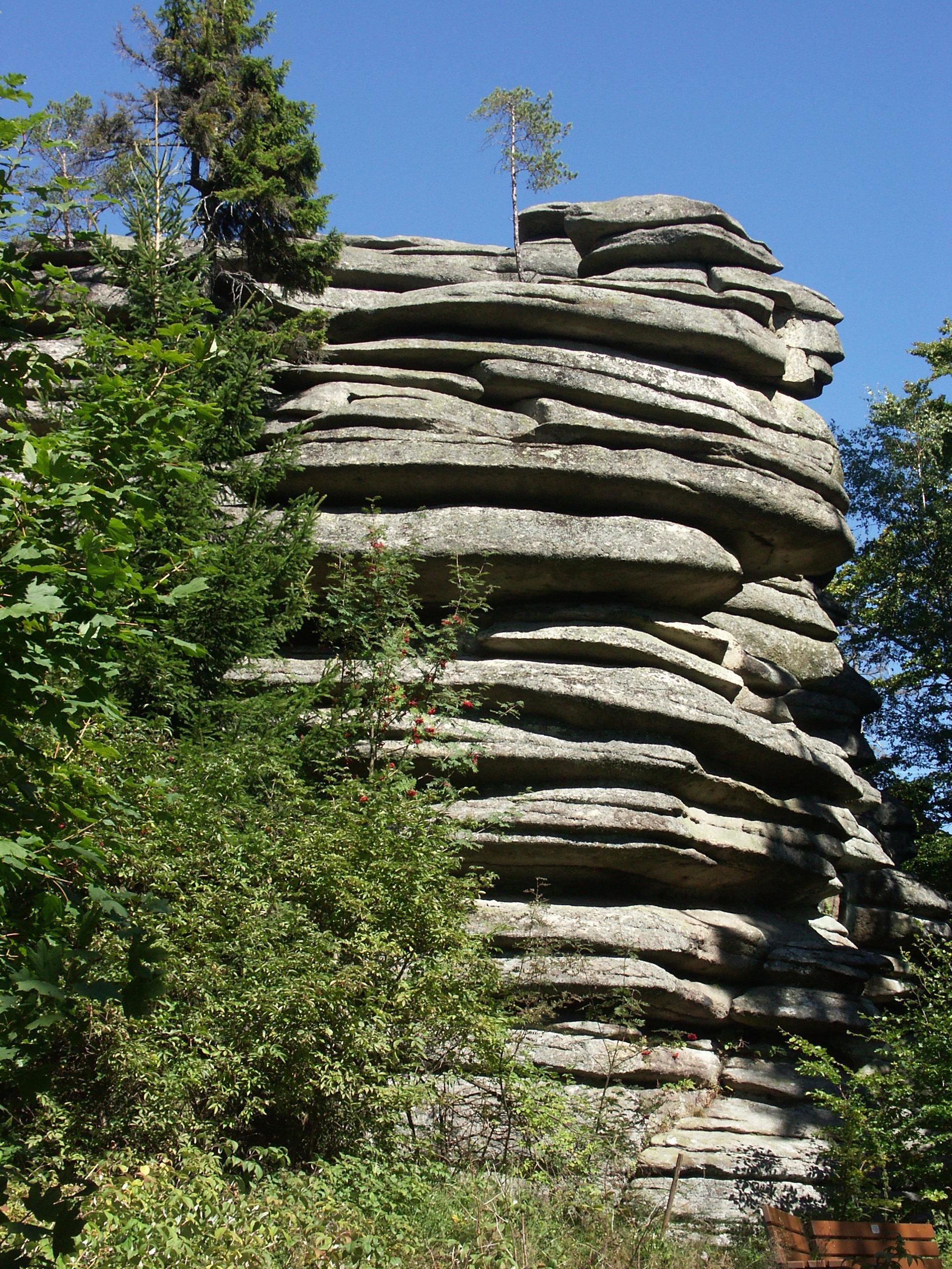 Typ. rocks of Fichtelgebirge_Germany Photo by Jean-Patrick Donzey